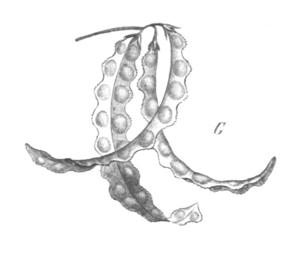 Illustration from book